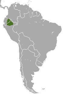 White-tailed Titi (Callicebus discolor) range